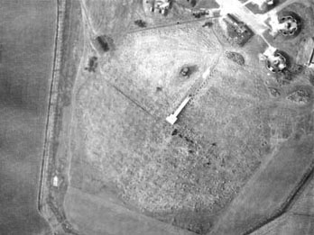 Aerial photo of the gun laying mat on the south side of Moor Lane at Cleadon, Jarrow taken on 27 March 1946 by the RAF. The GL mats were installed starting in early 1941 to correct a problem noticed when using the British Army's early GL Mk. I radar systems. The signal was sent out in a broad pattern and would strike the ground in front of the station to be reflected back in the sky. The same problem occurred on reception, with signals received directly as well as reflecting from nearby ground. The mixed signal was randomized by the lay of the land, which made calibration almost impossible. The mats provided an optically flat area that solved this problem. The mats consisted of 240 rolls of 2-inch chicken wire suspected on the ground about 5 feet on a cats-cradle of metal wires supported on wooden poles. The outline of the mat is the octagonal shape centred in the image. The white square object in the centre is a platform that raised the receiver antenna to the right altitude above the mat. The rectangular portion running to the top right is a ramp that allowed the carriage-born antenna to be backed up onto the platform. The round objects in the upper right are the AA gun emplacements. The radar equipment is missing in this photo. Either the site has been deactivated, or it has been replaced by a more modern radar system that did not require the mat. The grey rectangular object in the upper centre-left may be a GL Mk. III, or more likely a US SCR-584.